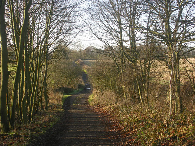 Hummerbeck Lane, West Auckland. Hummerbeck Lane follows the line of the Roman Road from Binchester (Vindamora) to Bowes (Lavatris). Recently, the lane has been designated as part of the Walney to Wear Cycle Route (National Cycle Network,Regional Route 20), and affords a traffic-free but rather muddy route for cyclists between Bishop Auckland and Barnard Castle. View looking south-west.